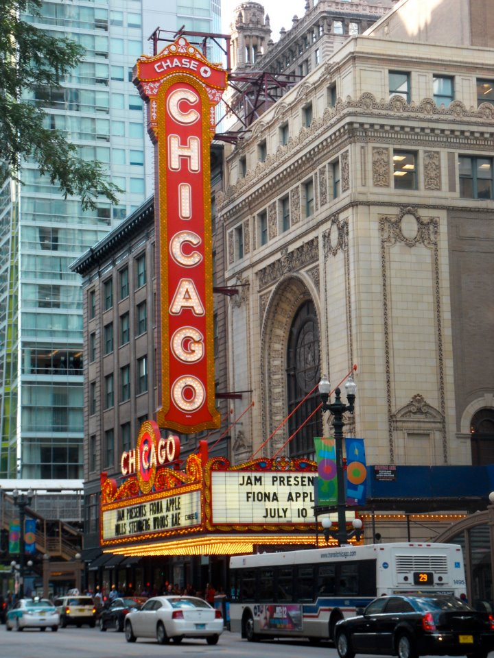 State street Chicago Chicago Musical